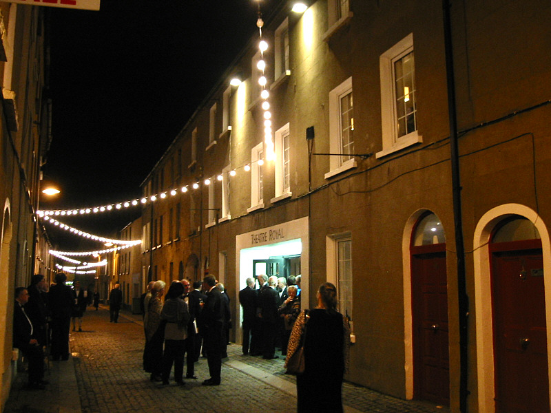 Theatre Royal, Wexford, Ireland: a festive crowd during intermission of a performance by the Festival Opera of Wexford in 2002